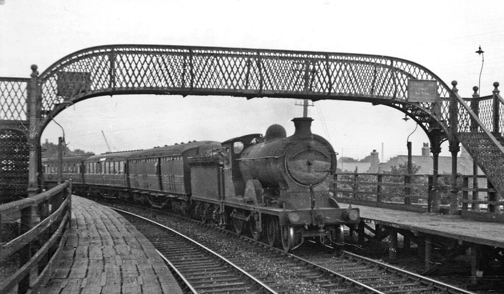 Edinburgh Waverley - Corstorphine branch train at Balgreen Halt. View SE, towards Edinburgh; ex-North British branch. As was normal practise, stock from a main-line train is being employed for the branch service, the locomotive being ex-NB D30 'Scot' 4-4-0 No. 2437 'Adam Woodcock'.